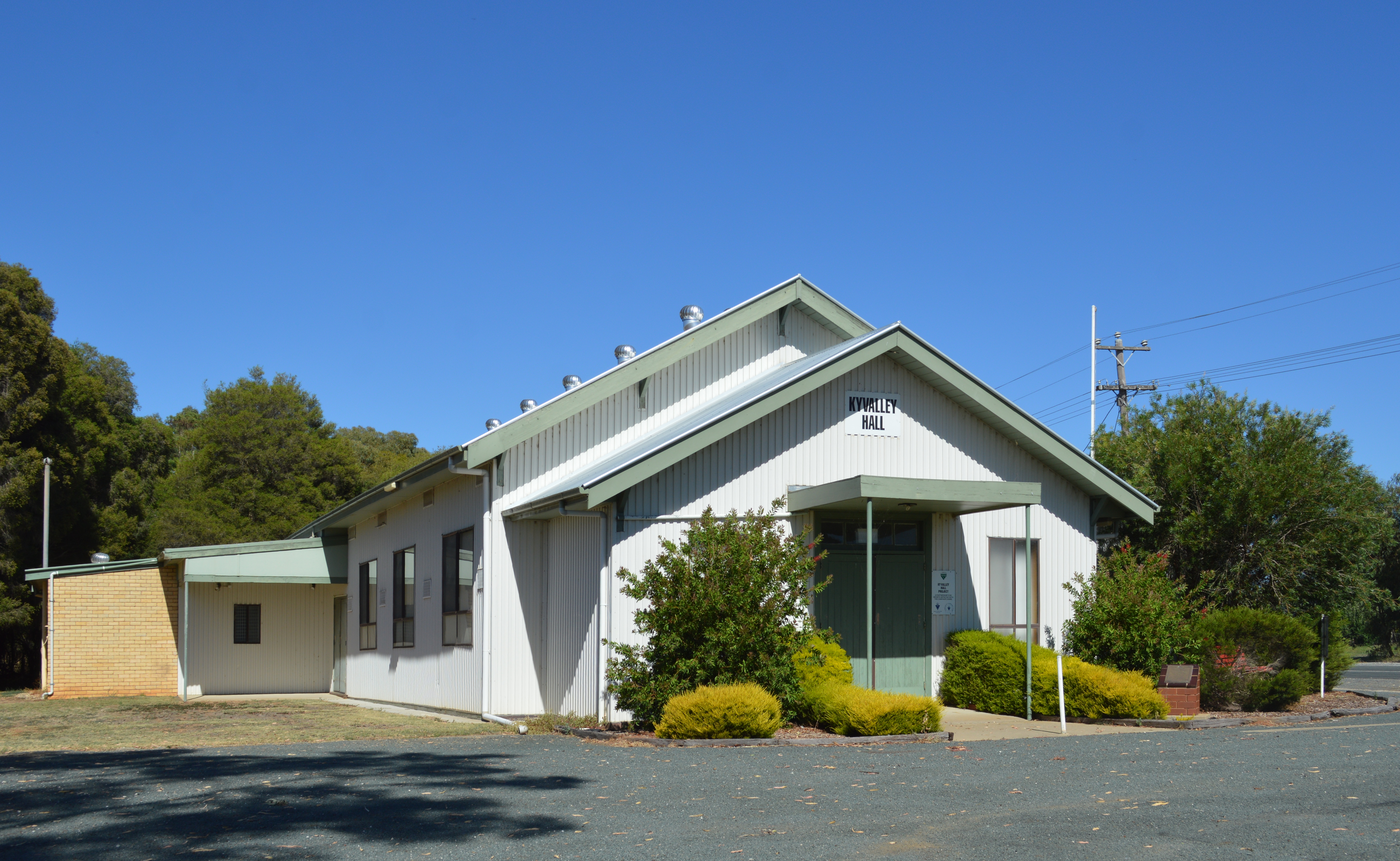 Public hall at Kyvalley, Victoria